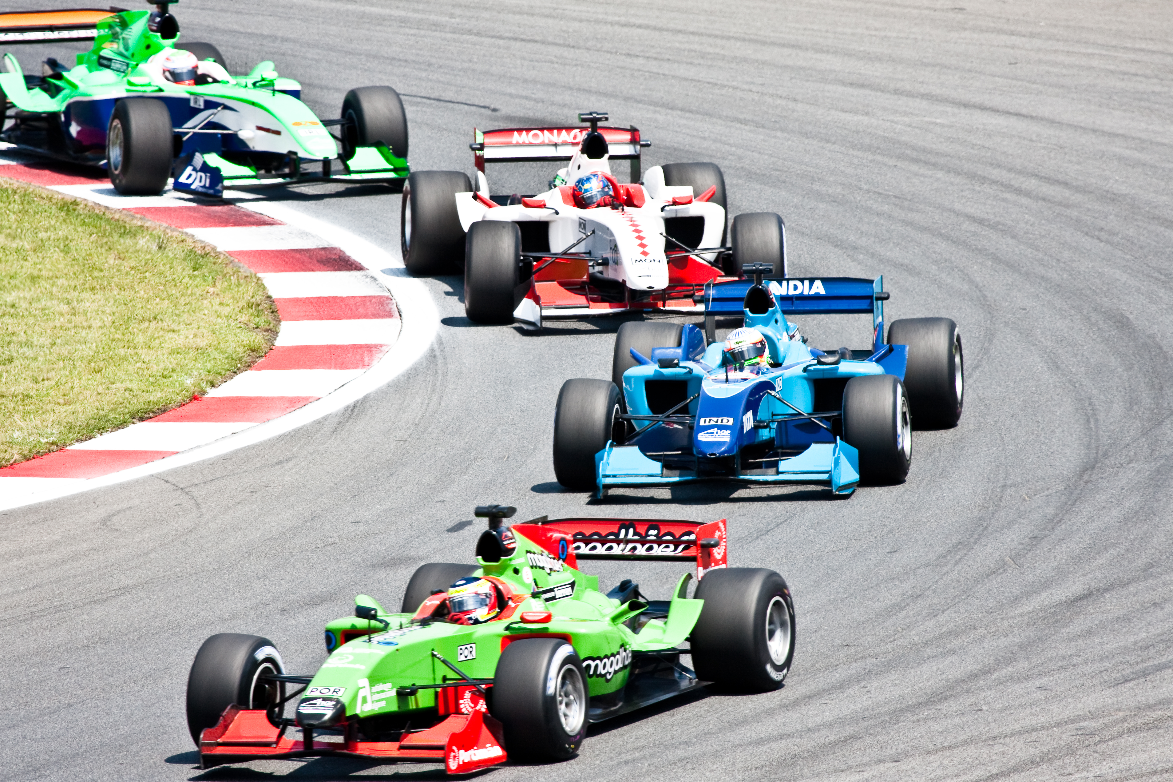 A1 Grand Prix Kyalami South Africa 2009